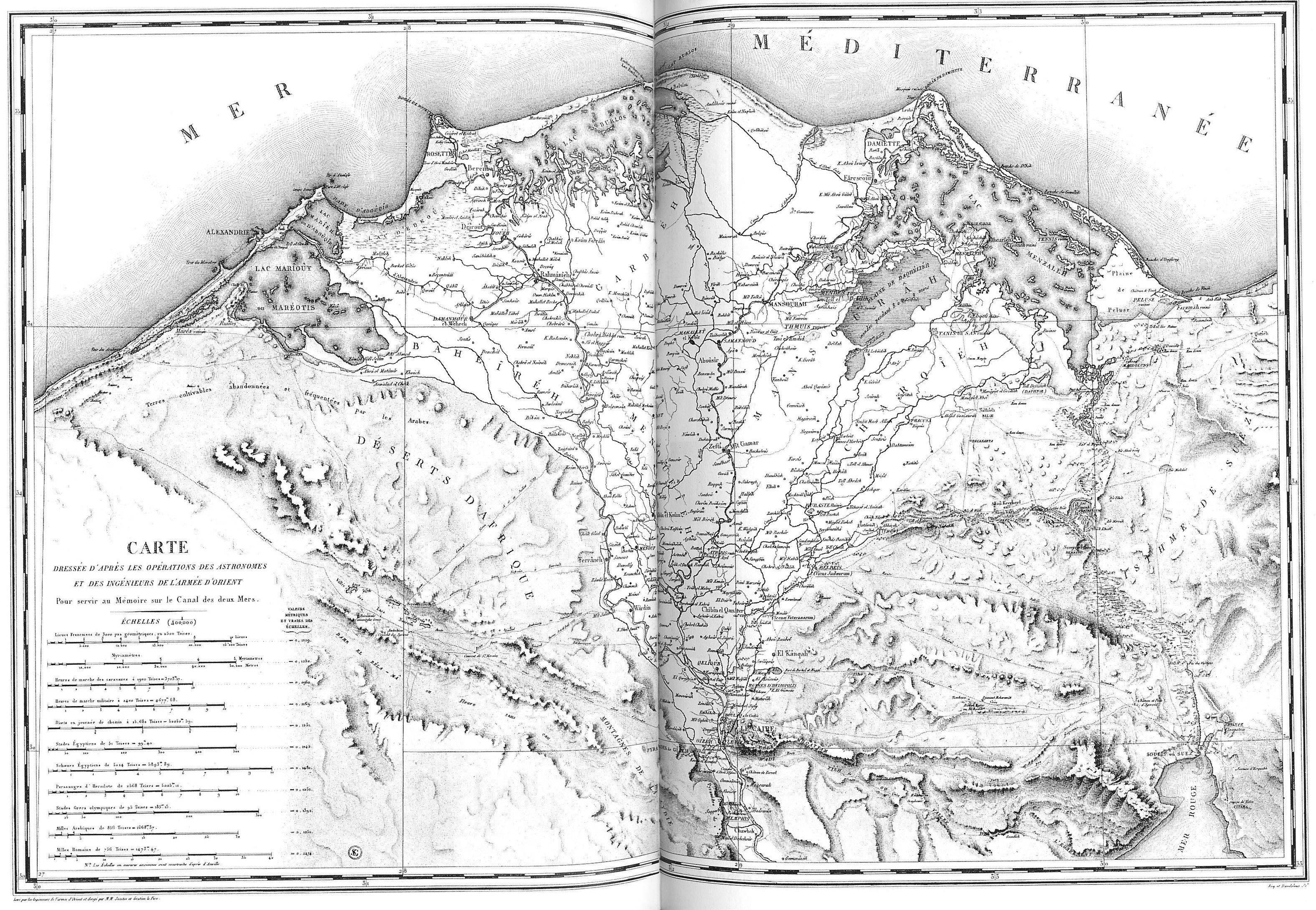 The Nile delta at the time of Napoleon (1800). This map of lower Egypt was printed in Description de l'Égypte Volume 1, commissioned by Napoleon Bonaparte, published 1809-1829.